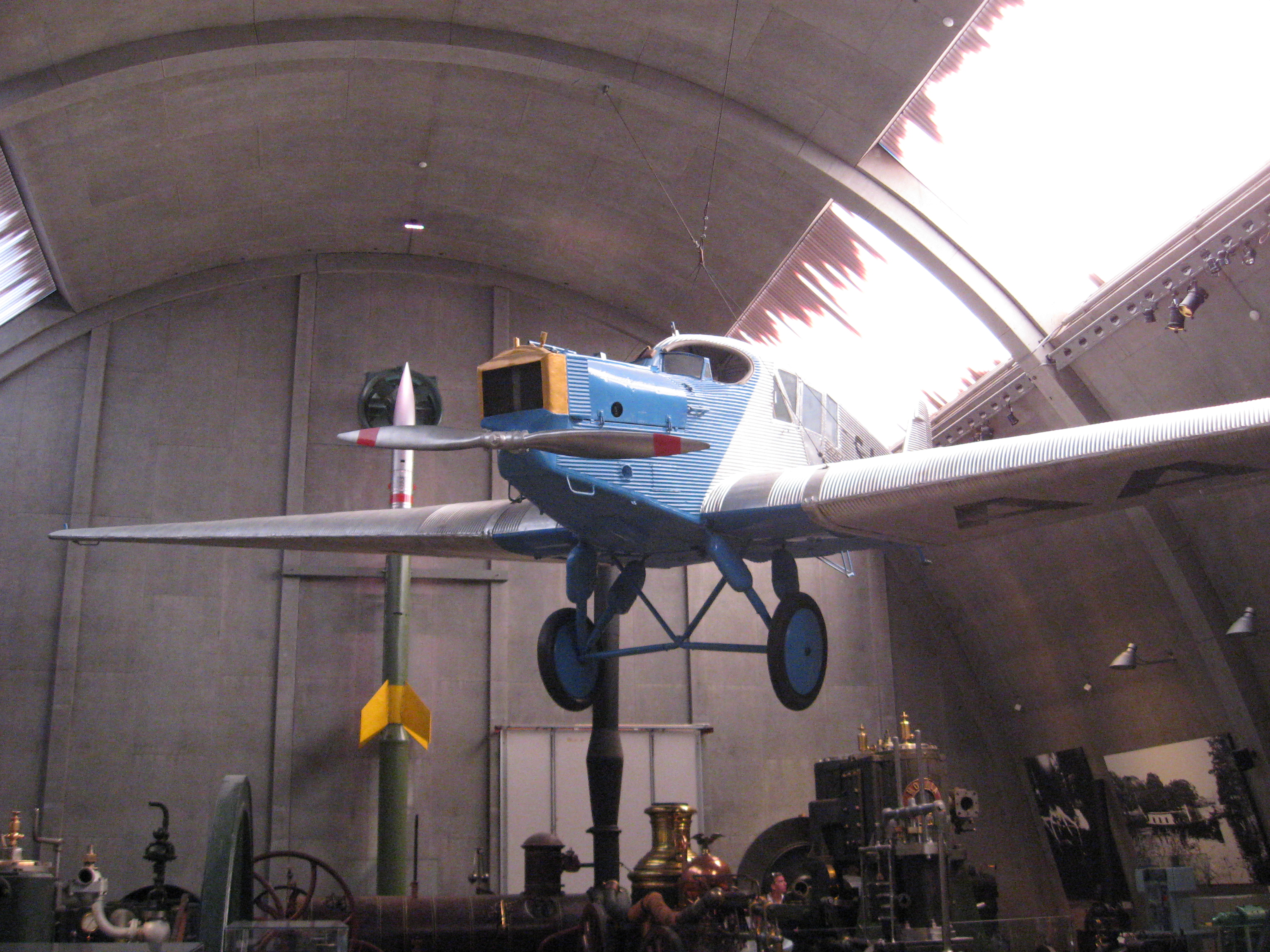 1923 Junkers F13